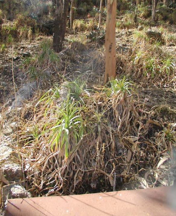 Eucalypt forest Adawro